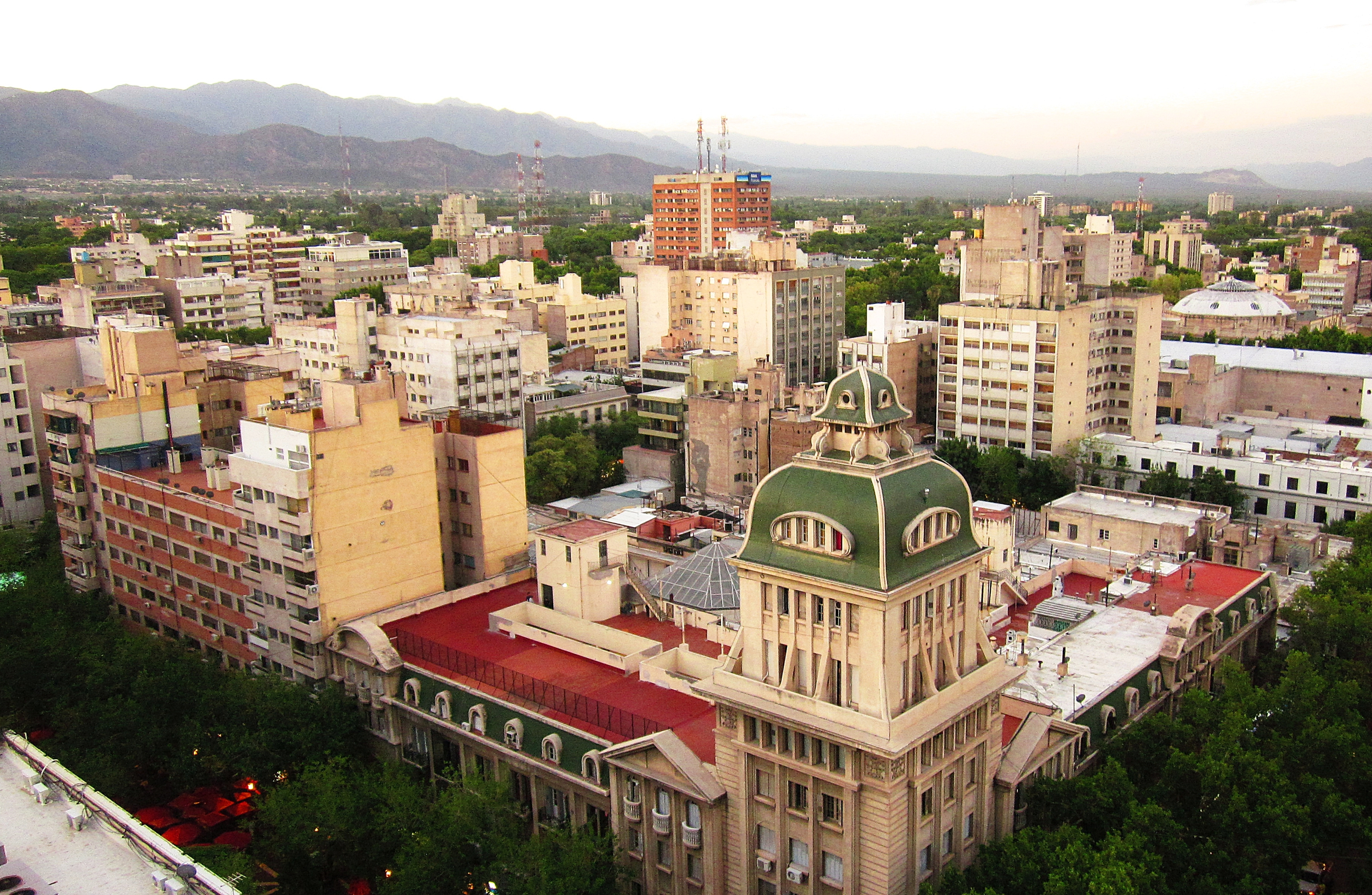 A beautiful landscape of a Mendoza City's part seen from the highest of Gómez building.